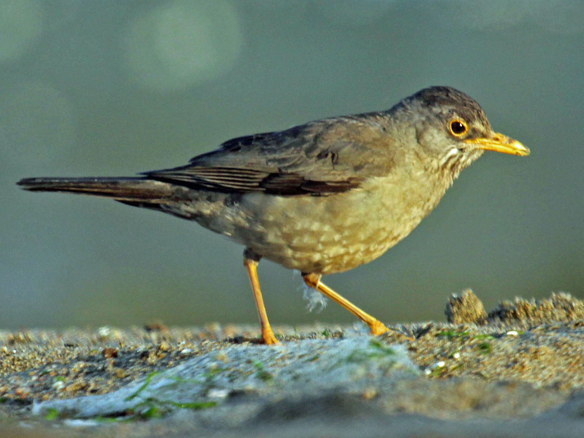 Austral Thrush (Turdus falcklandii) - Vina del Mar, Chile